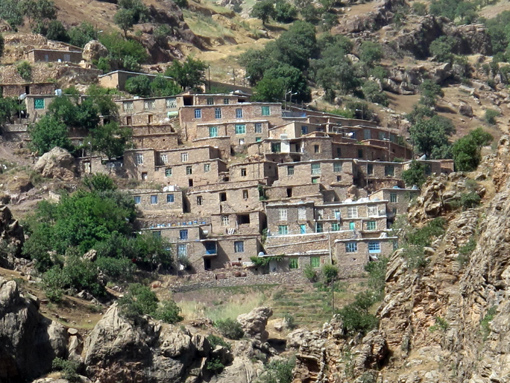 A Kurdish village in Hawraman 2015